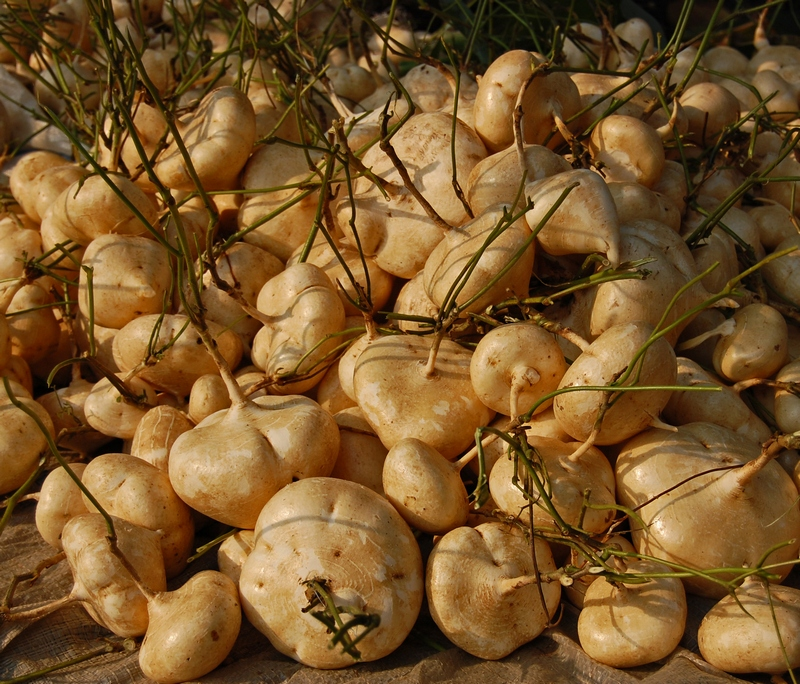 Pachyrhizus erosus bulb-root. Situgede, Bogor, West Java, Indonesia.